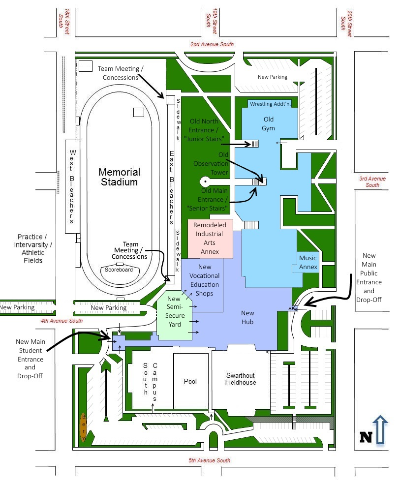 Map of the campus of Great Falls High in Great Falls, Montana, United States, showing proposed construction of "The Hub", new semi-secure yard, remodeled structures, new parking, and other changes. Existing building construction is in light blue. New building construction is in light purple. Remodeled building construction is in light pink. Grassed areas like yards, boulevards, and such are in dark green. The new semi-secure outdoor grassed yard is in light green. Most entrances are shown by small arrows. New parking construction is labeled.